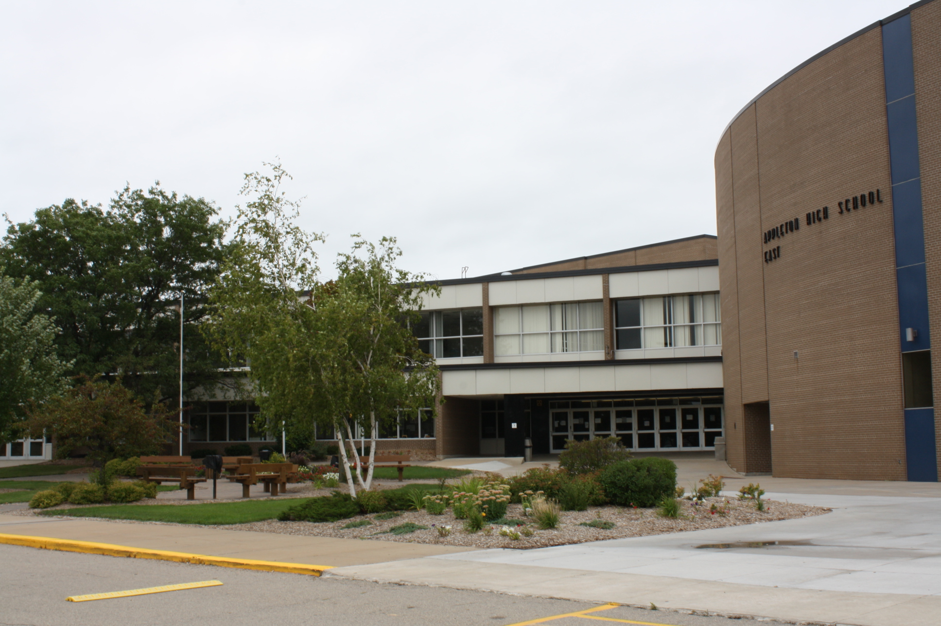 Looking at the pedestrian mall for Appleton East Highs School.